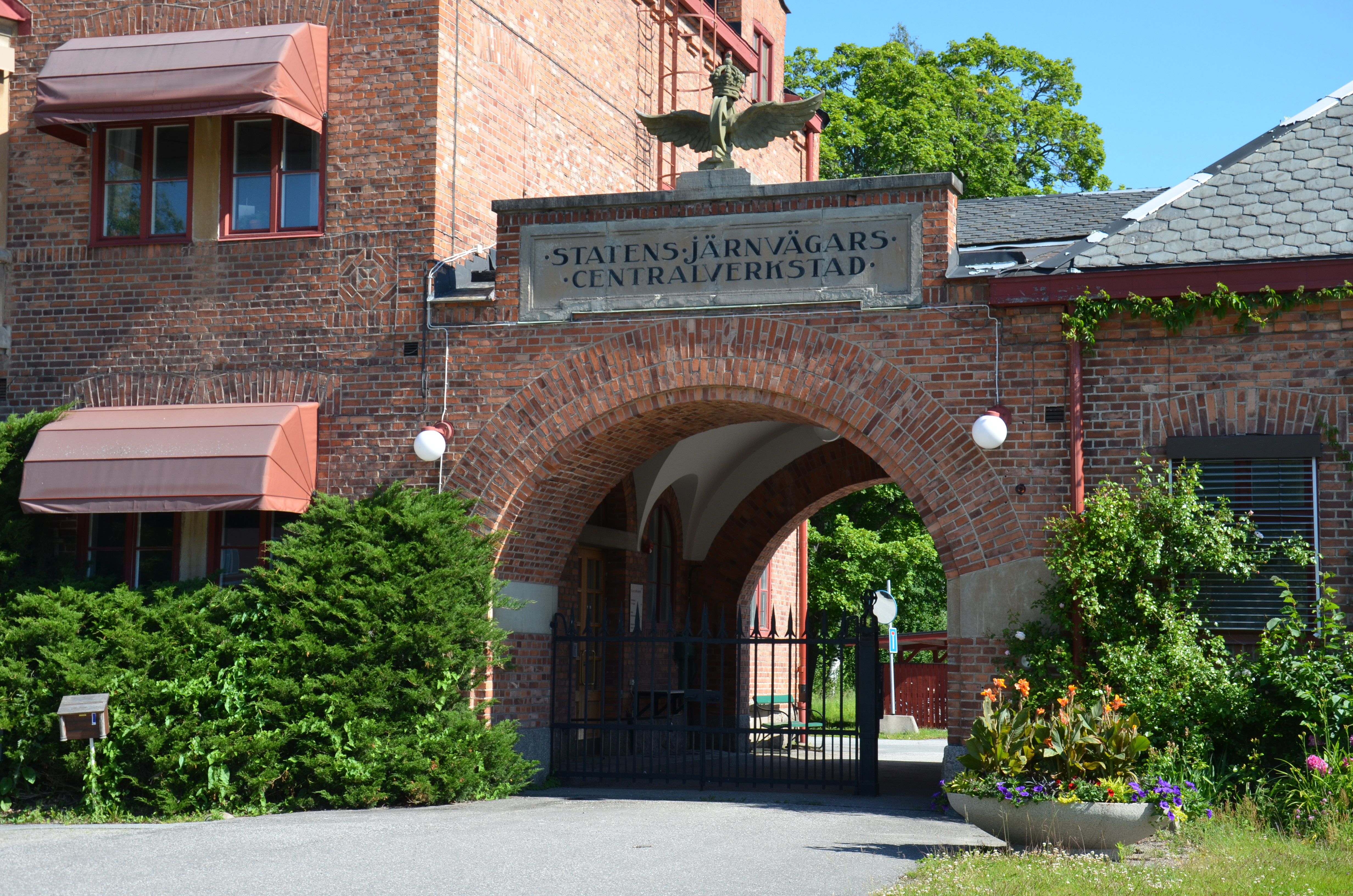 The entrance of the earlier Central Mechanical Workshop of Swedish Railways in Örebro